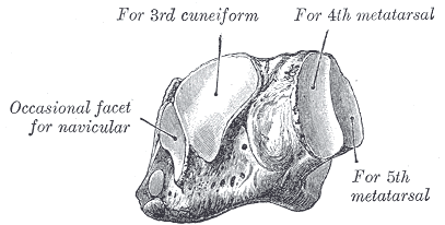 FIG. 274– The left cuboid. Antero-medial view.